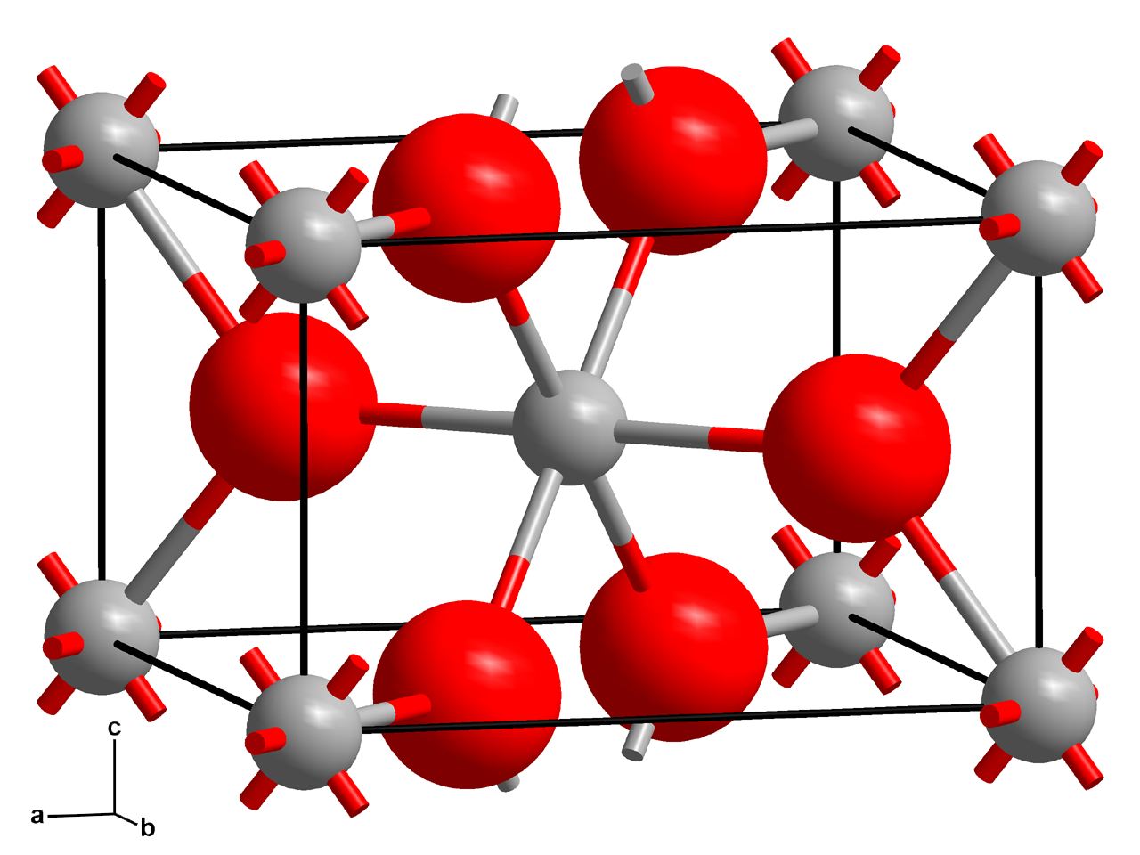 Crystal structure of rutile (titanium(IV) oxide, TiO2). Crystallographic data